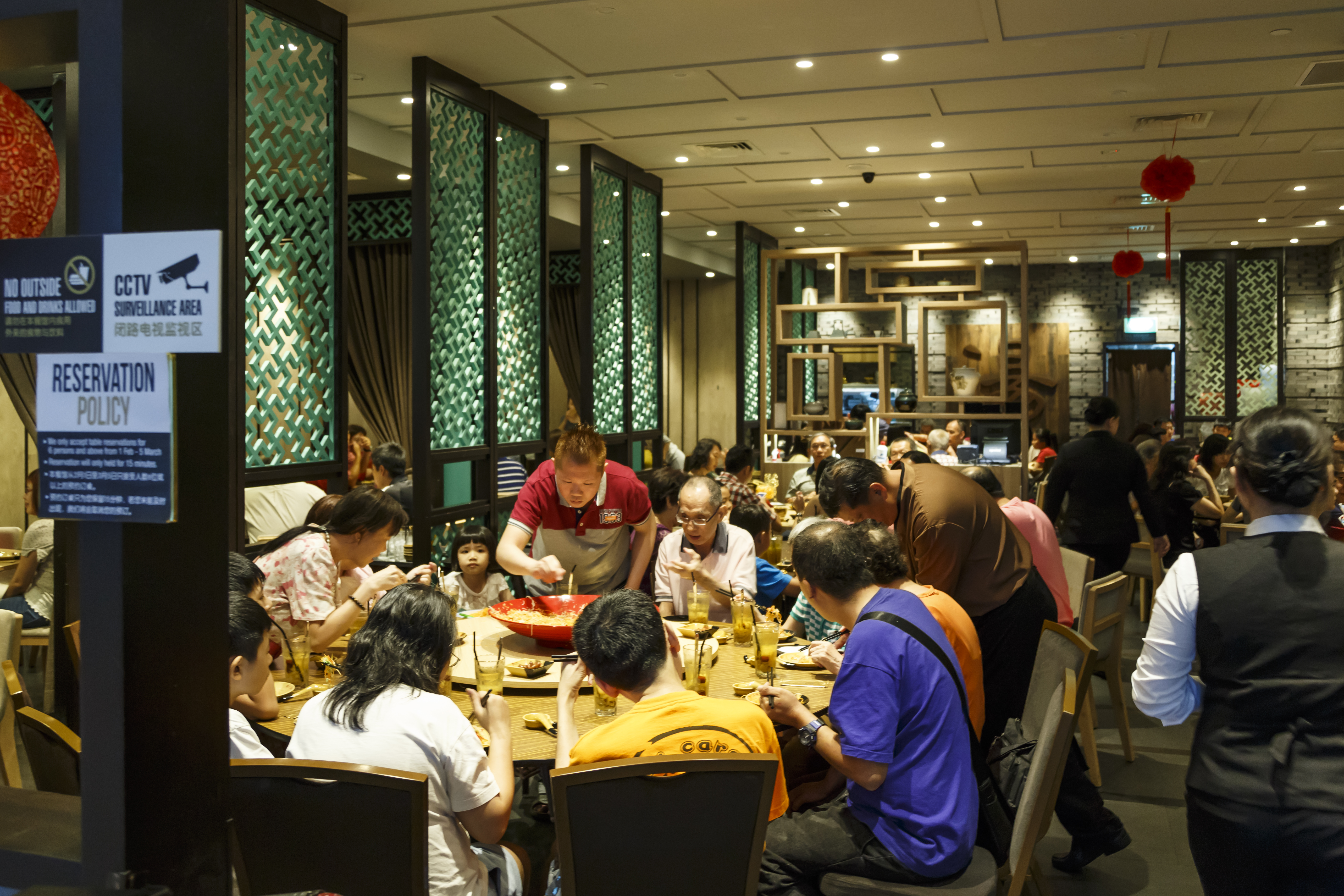 Singapore: Chinese families gather in a restaurant in Sungtec Singapore, Convention and Exhibition Centre for "Yusheng yee sang" (Prosperity Toss). It is considered a symbol of abundance, prosperity and vigor.